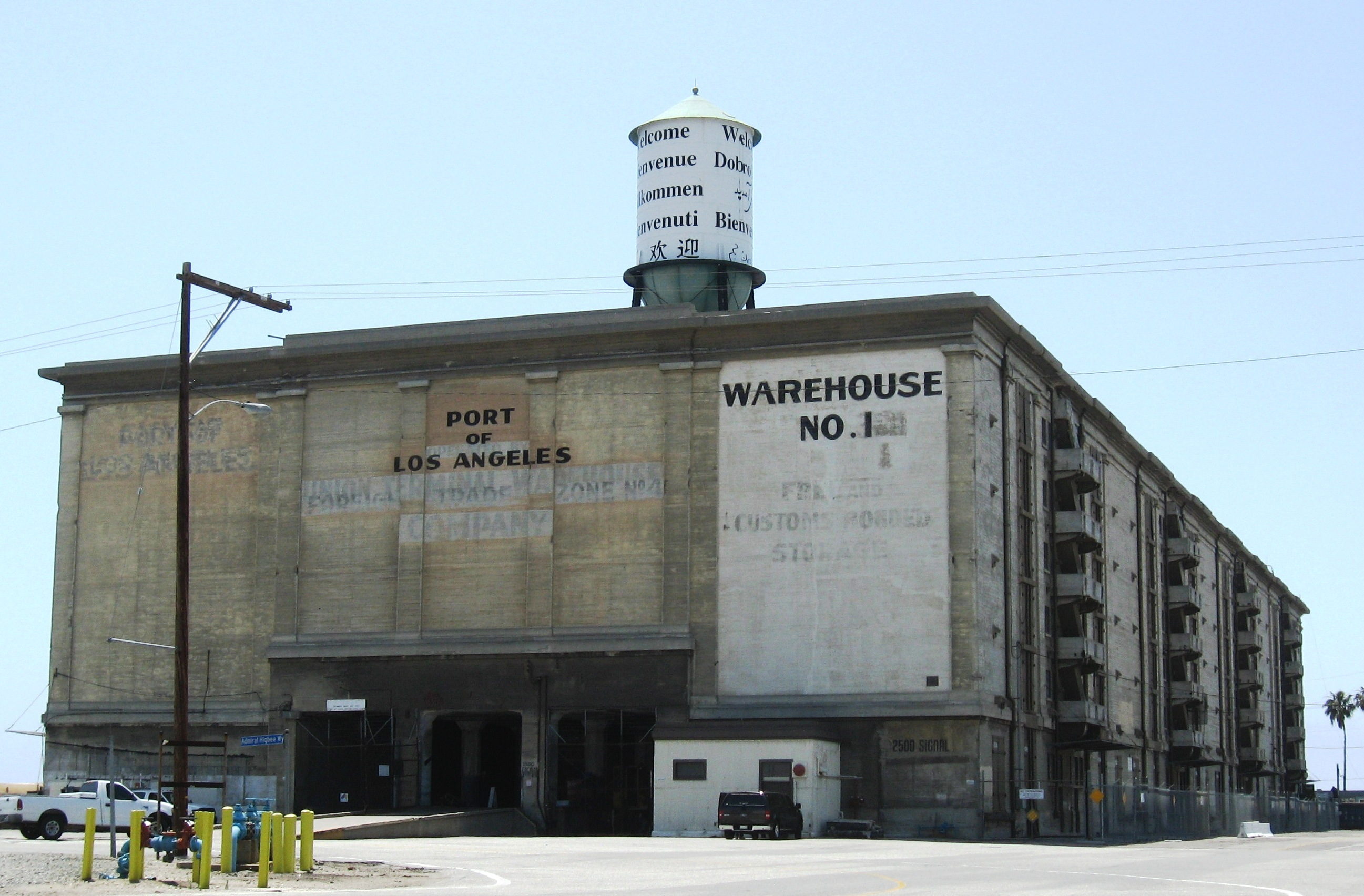 Los Angeles Municipal Warehouse No. 1, Port of Los AngelesSan Pedro, California